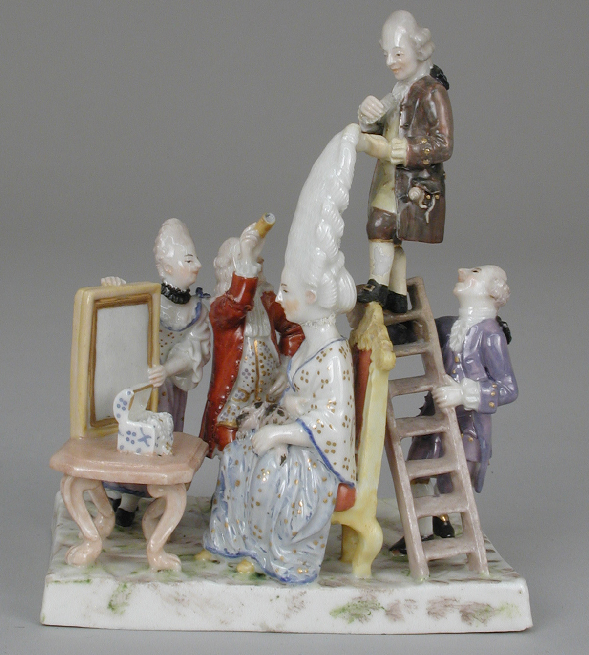 German, Ludwigsburg; Figure group; Ceramics-Porcelain